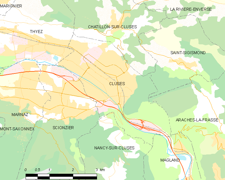 Map of French municipality Cluses